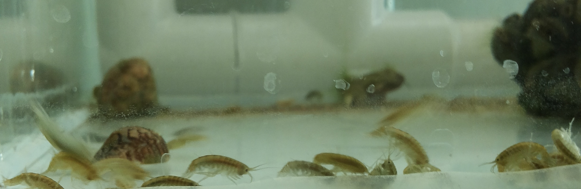 Gammarus lacustris in an aquarium. Lithuania, Vilnius.